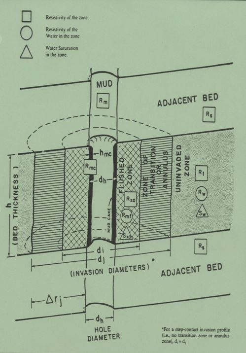 Well Borehole environment